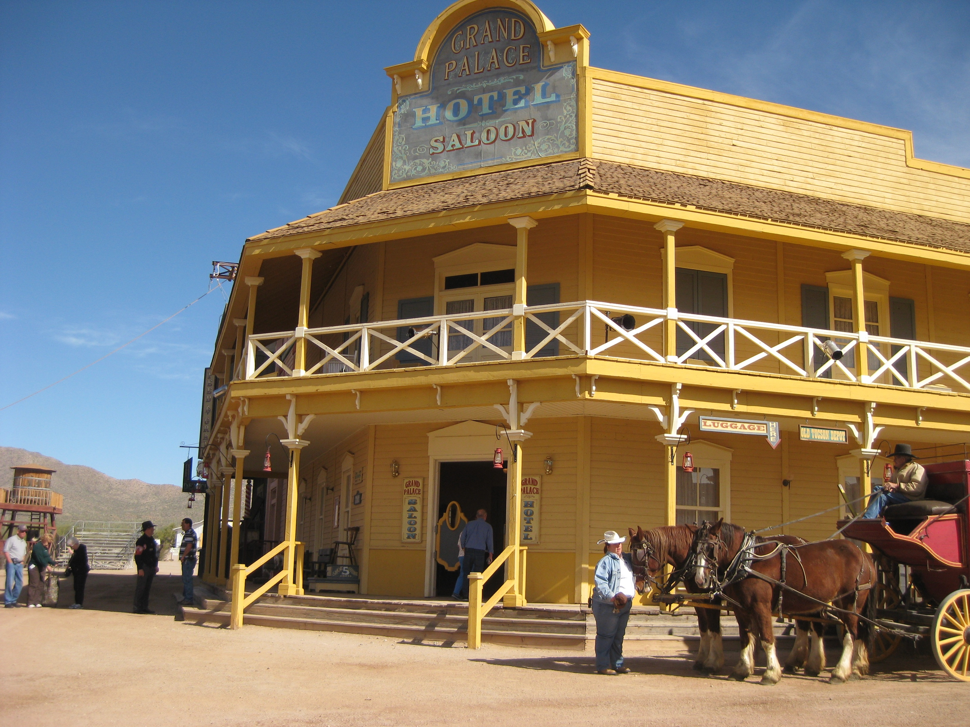 Old Tucson Saloon, Arizona, USA